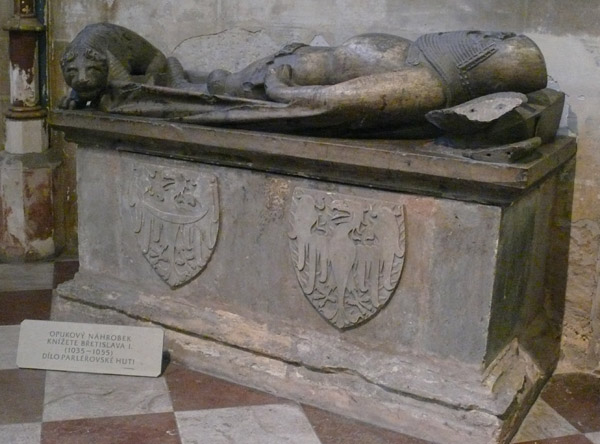 Bretislaus I of Bohemia